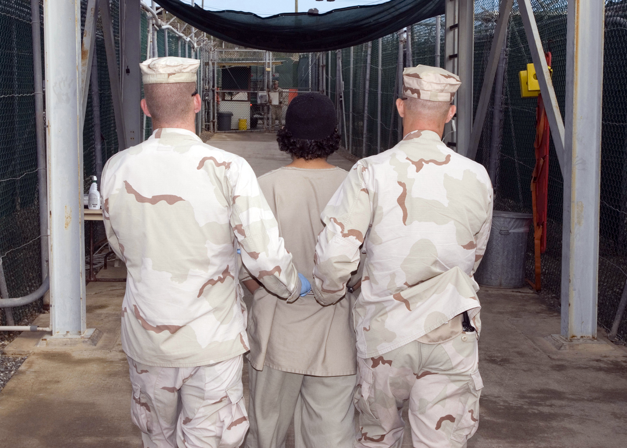 GUANTANAMO BAY, Cuba – JTF Guard Force Troopers transport a detainee to the detainee hospital located adjacent to Camp Four, Dec. 27, 2007. A staff of more than 100 health care personnel serve the approximately 275 unlawful enemy combatants at Joint Task Force Guantanamo. (JTF Guantanamo photo by Navy Petty Officer 1st Class Michael Billings)